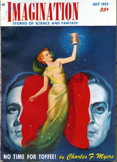 Cover of Imagination, July 1952